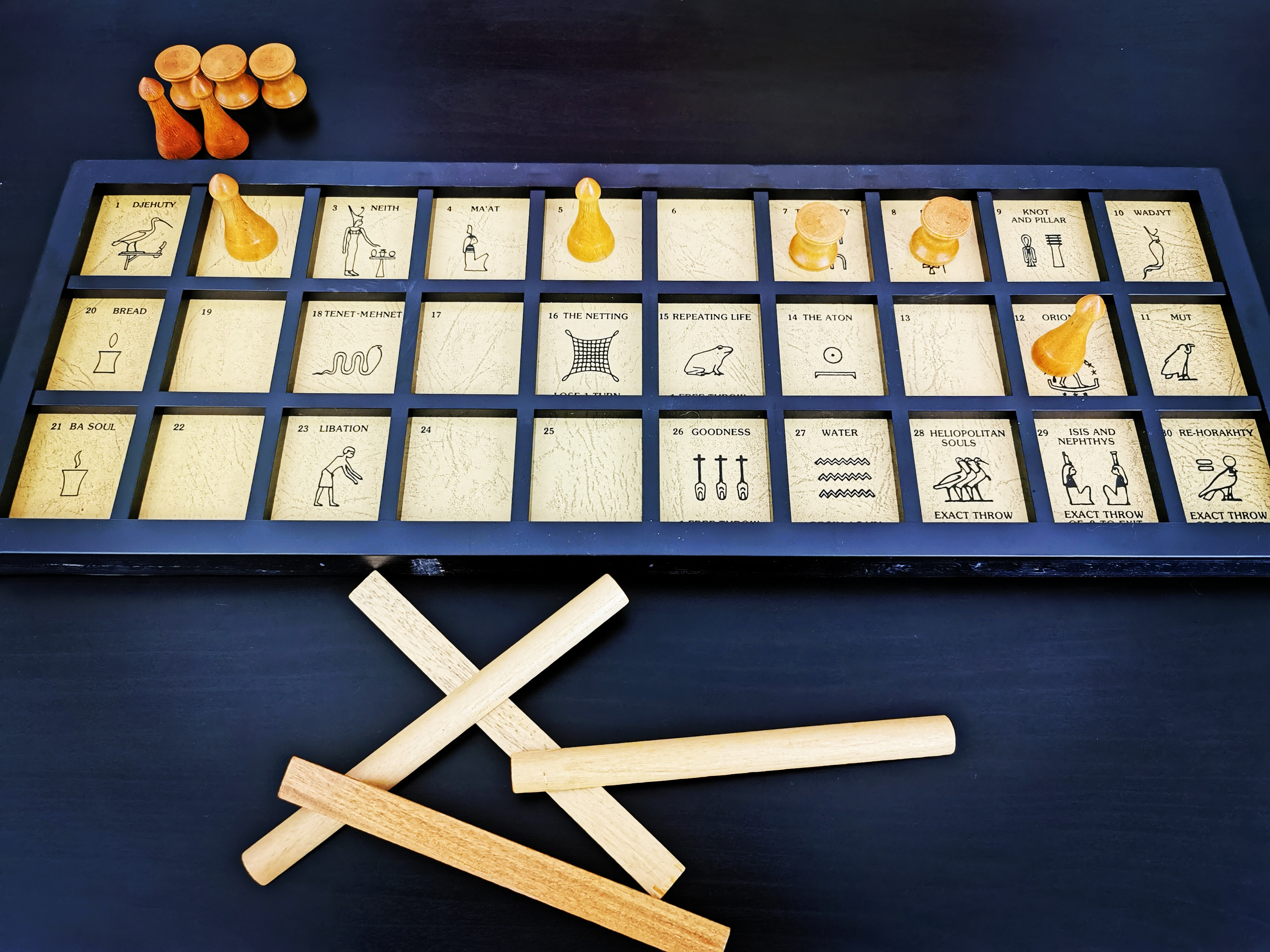 Modern Senet board game recreated from king Tutankhamun's tomb by Cadaco.